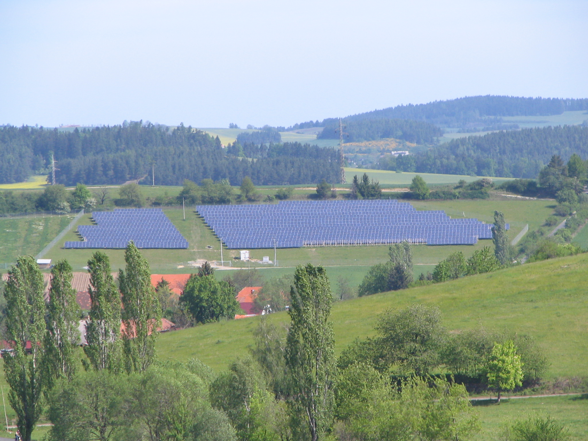 Solar powerplant in Bušanovice – view from afar